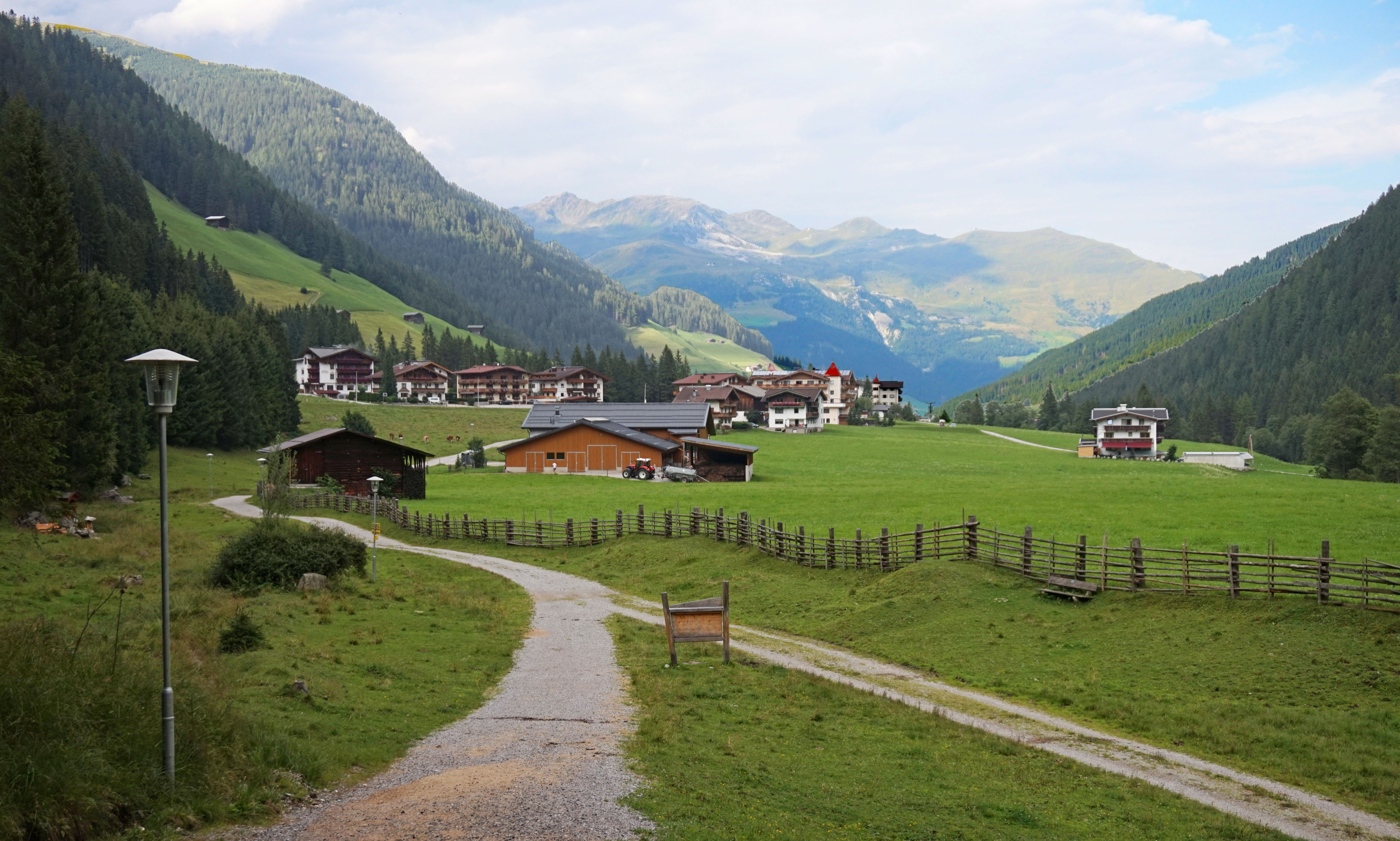 Madseit village between Hintertux and Juns, Austria. This photograph was taken with a Sony Alpha a5000.